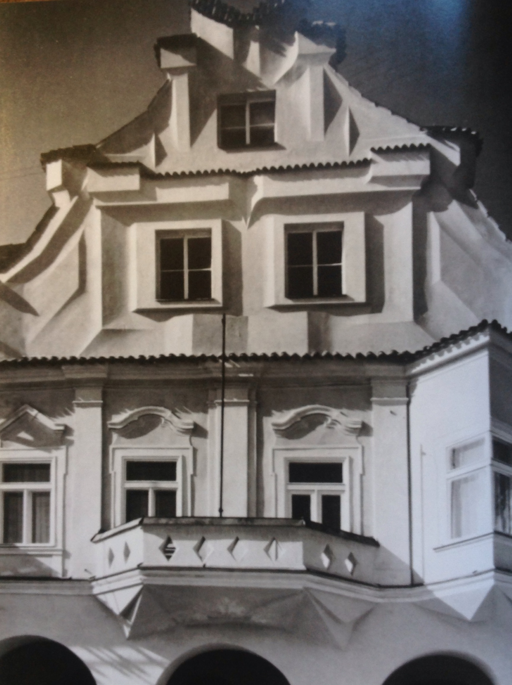 The Fara House in Pelhnrimov, Czech Republic, with a Cubist/Art Deco facade designed by Pavel Janak (1913)